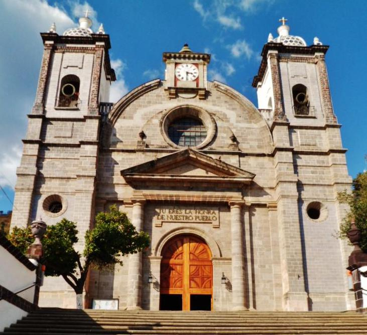 Cathedral Basilica of Saint Clement, Tenancingo, Mexico State, Mexico